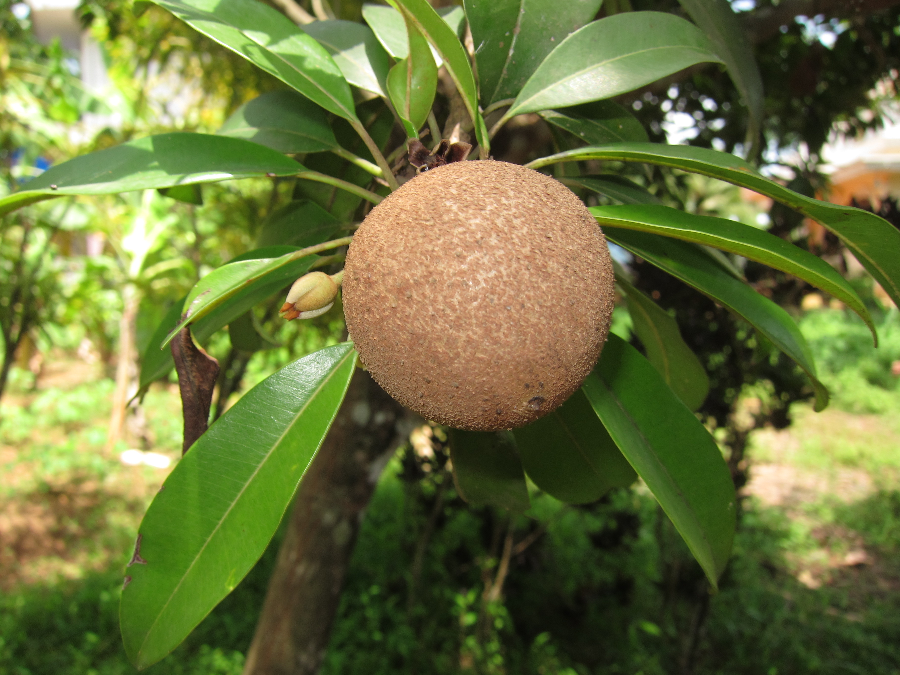 Sapota സപ്പോട്ട Chikku ചിക്കു